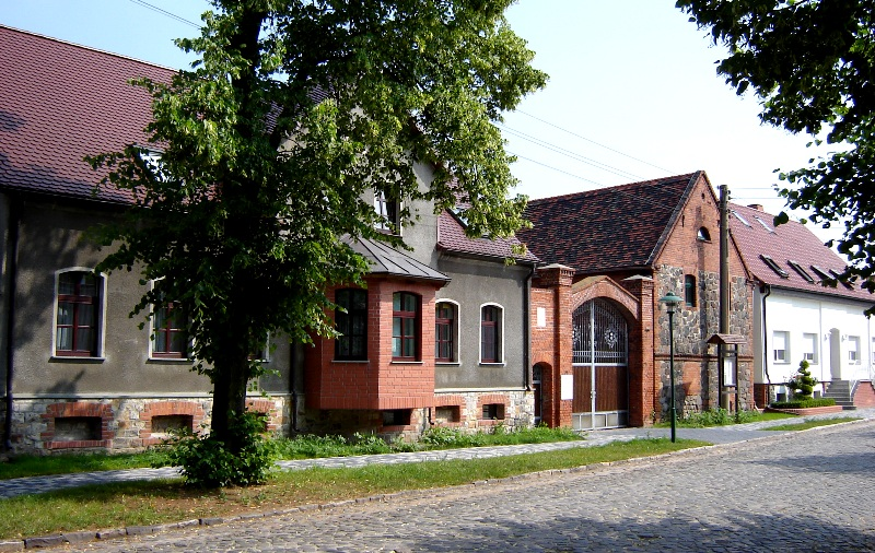 Thälmannstraße in Gommern-Karith (Saxony-Anhalt)